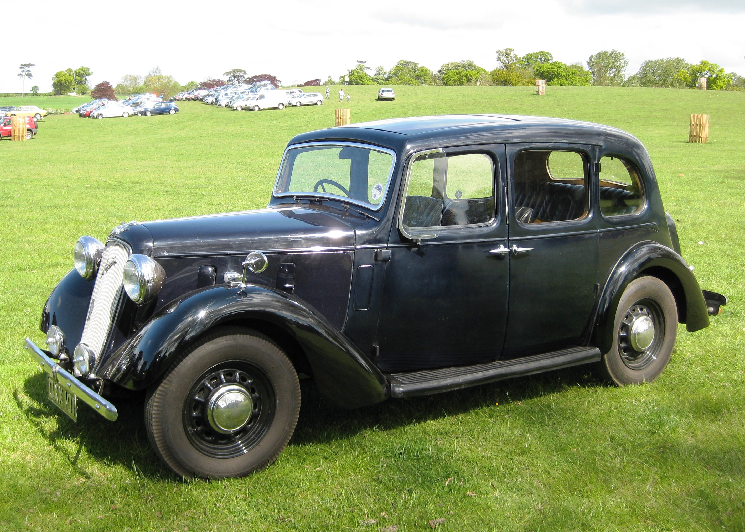 Austin 12 in a field near Biggleswade 1937/38 car without enlarged doors